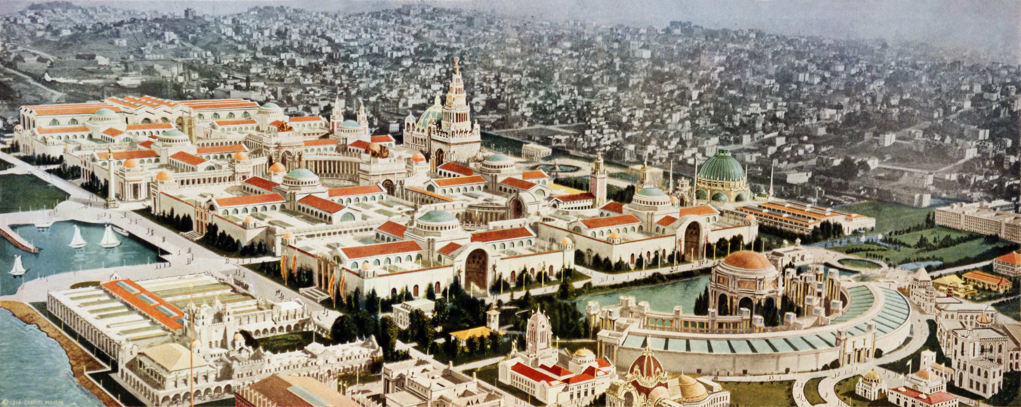 Aeroplane view main group of exhibit palaces. Panama-Pacific International Exposition, Published by Pacific Novelty Co., San Francisco, California, 1915. In the foreground is the Palace of Fine Arts, the only contemporary building that originates from the Pan-Pacific Expo. From the Popular Graphic Arts Collection at the Library of Congress More World's Fairs and Expos | More popular graphic art [PD] This picture is in the public domain.